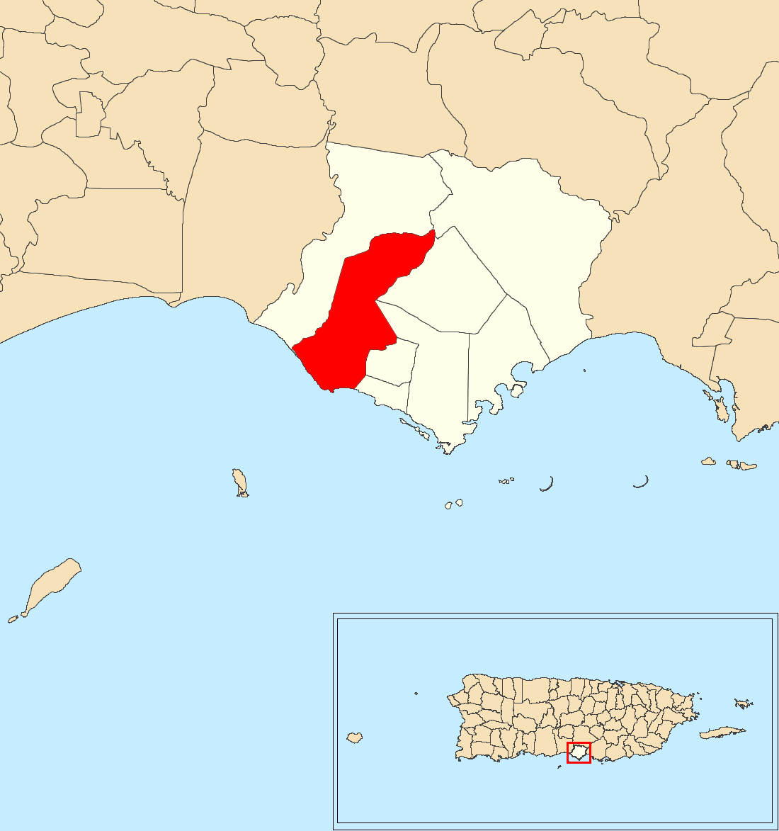 Boca Velázquez, Santa Isabel, Puerto Rico locator map